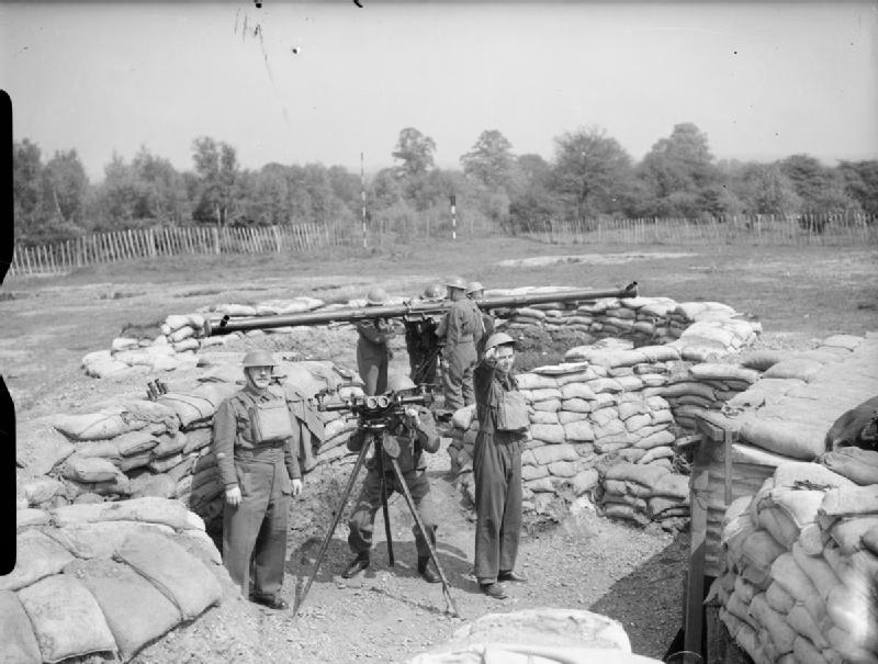 The British Army in the United Kingdom 1939-45 Range-finder devices at 303rd Battery, 99th Anti-Aircraft Regiment, Royal Artillery, Hayes Common in Kent, May 1940.